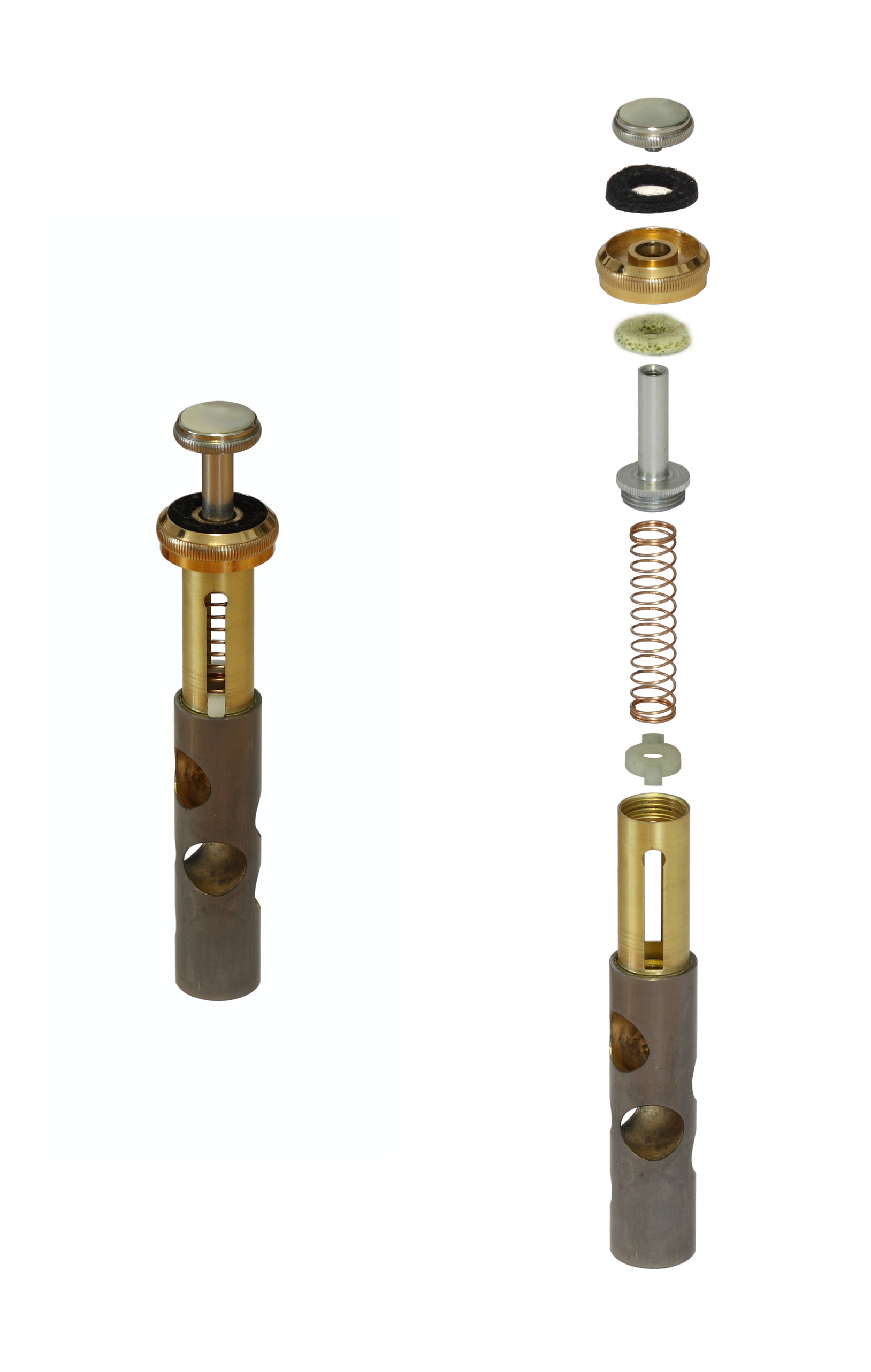 Anatomy of a Périnet (piston) valve. This is the first piston valve of a Yamaha YTR6335 B♭ trumpet.